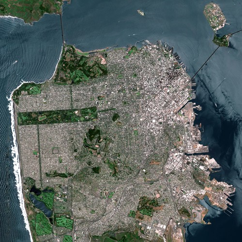 San Francisco by SPOT Satellite